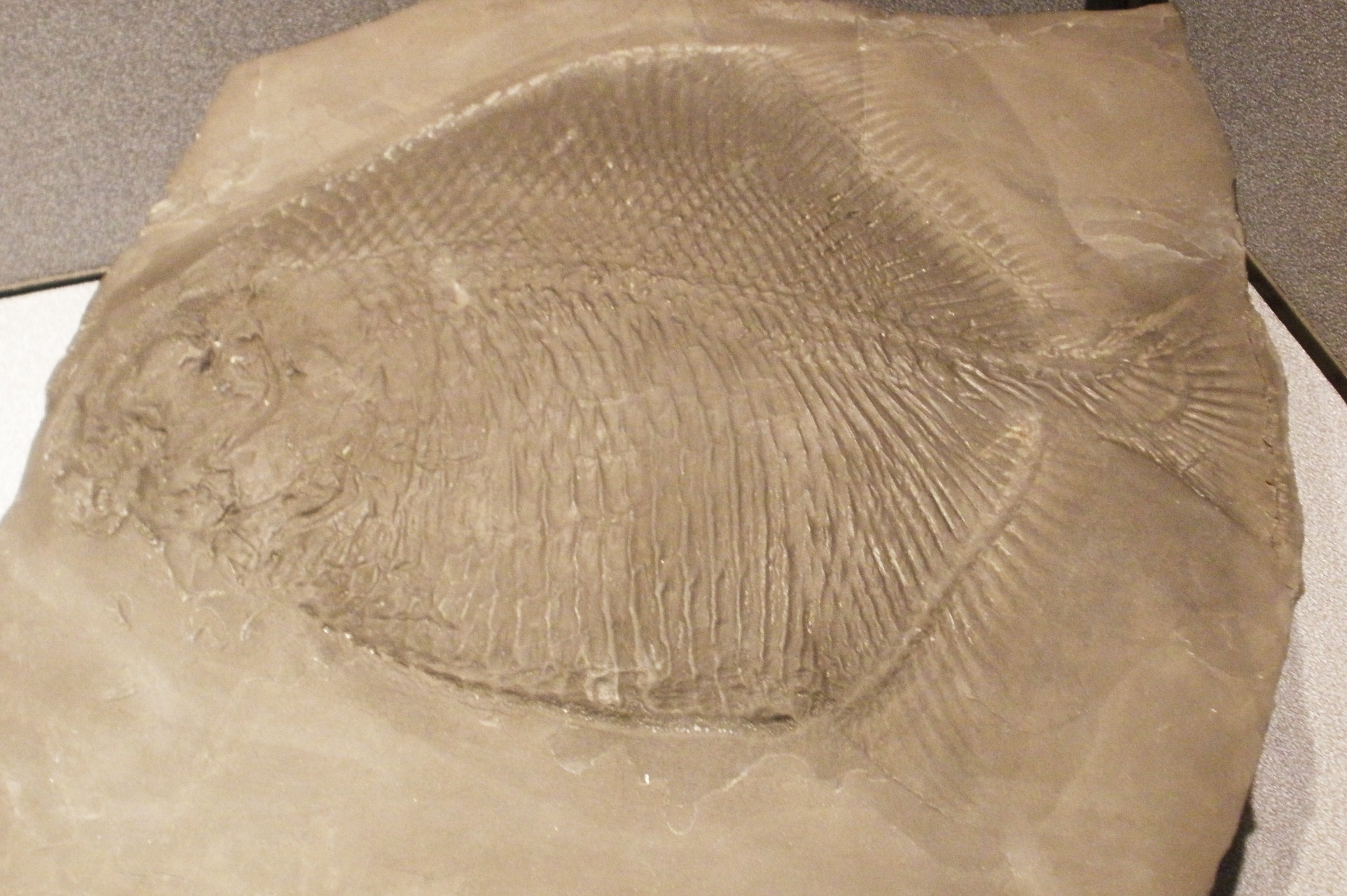 Fossil of Sargodon tomicus, an extinct fish